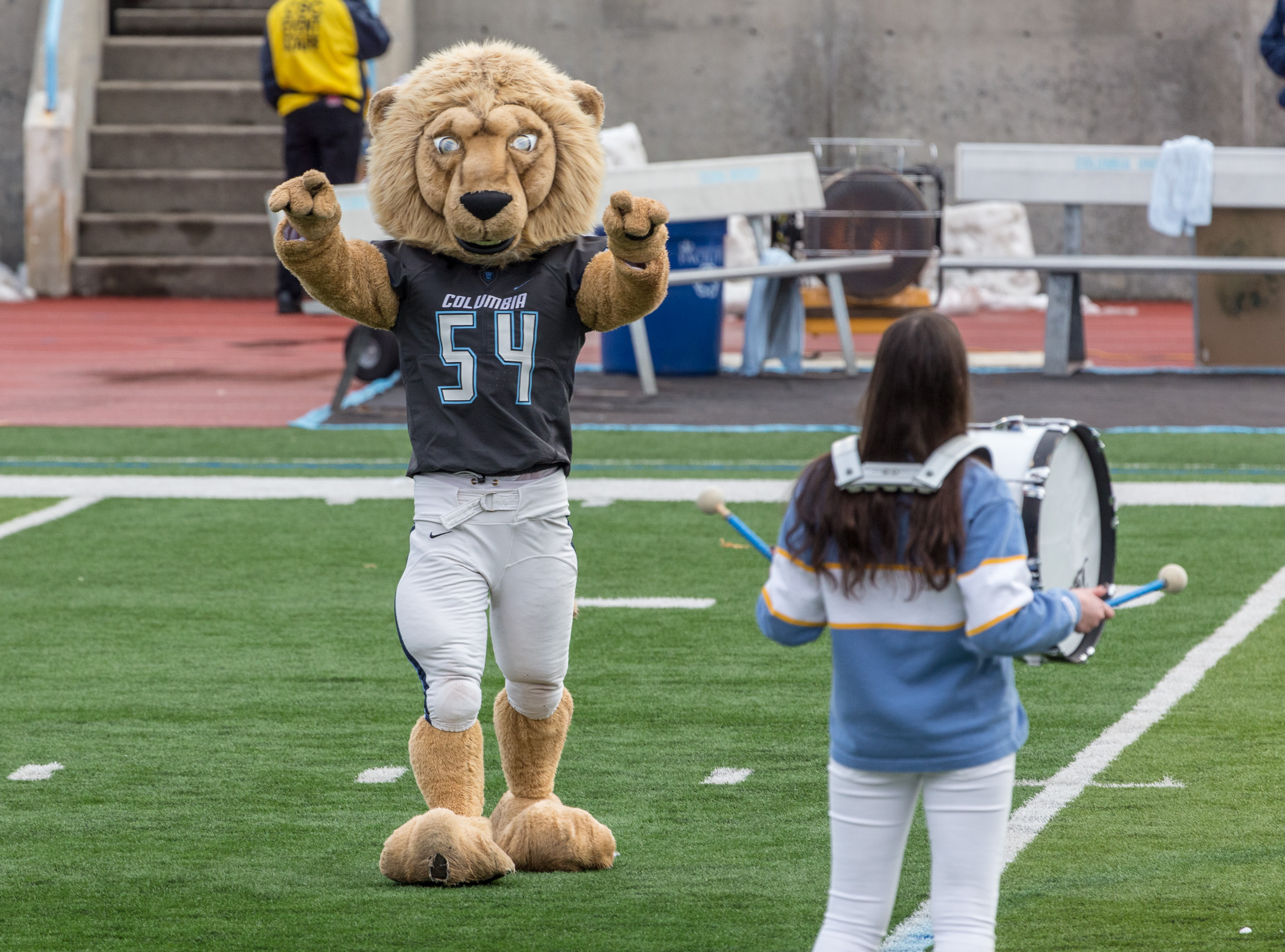 Roaree the Lion with the Columbia Marching band. Cornell vs Columbia football at Wien Stadium, November 17, 2018.